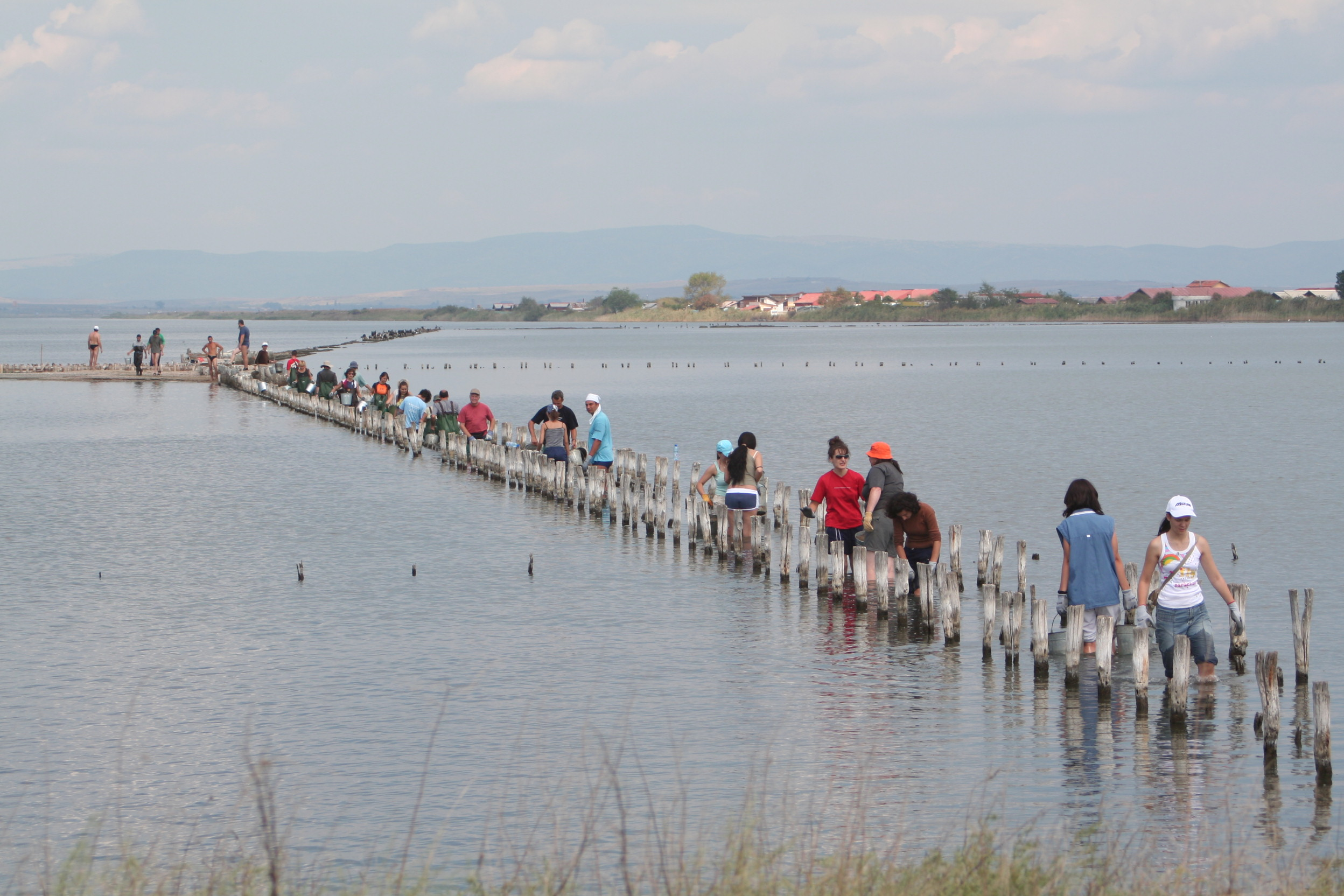 Visit BTCV in Bulgaria, Pomorie info Transporting material to build the nest sites is a real team effort. BTCV trip to Pomorie Lake on Bulgaria's Black Sea coast. The BTCV project is to establish artificial nest sites for many species of tern. Photo: Vanessa Coldwell